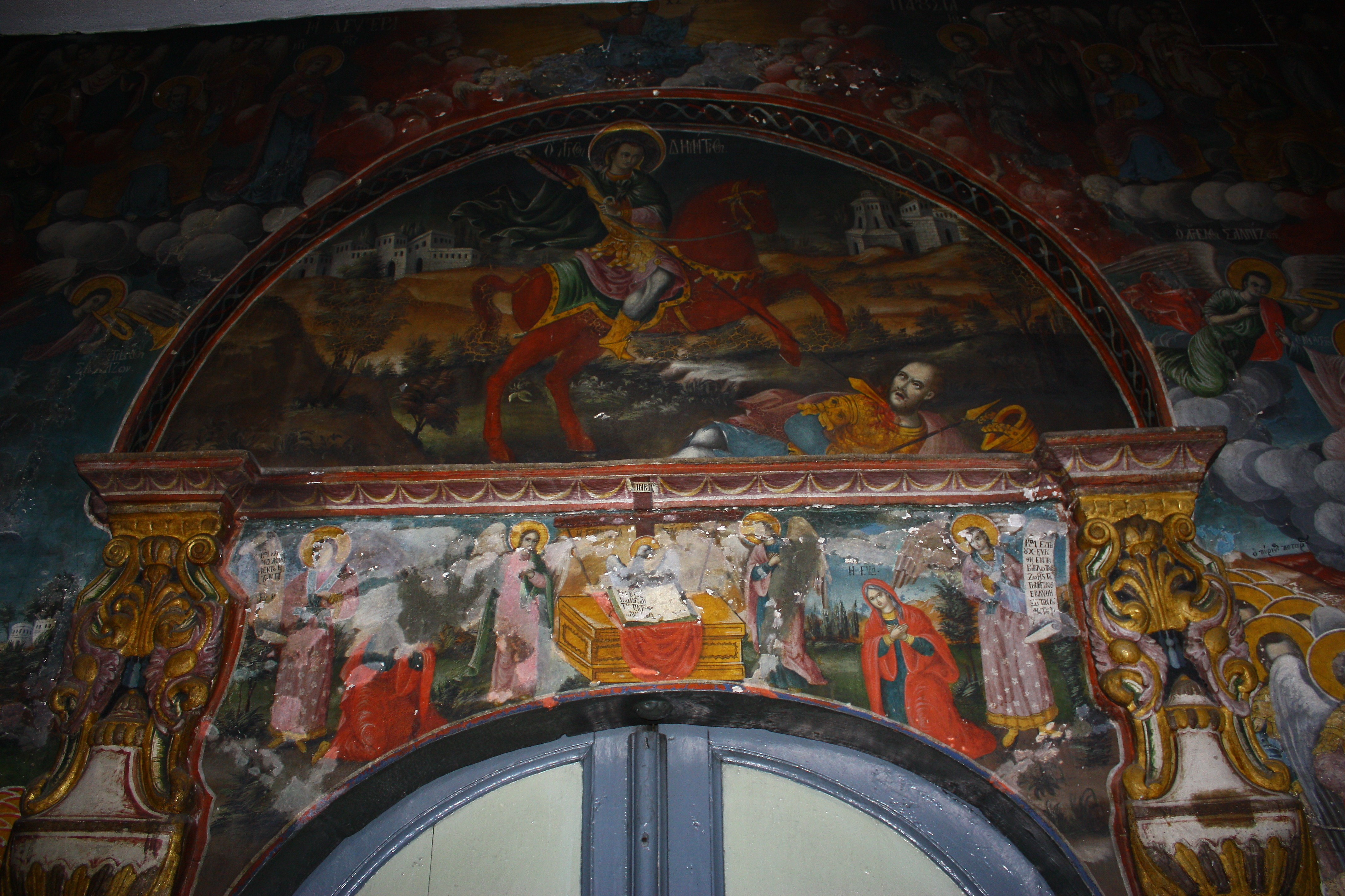 St. Demetrius Church in Bitola, Macedonia